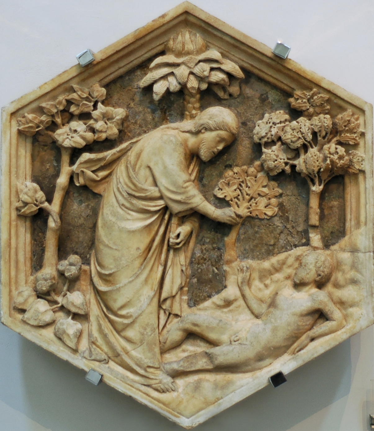 From the West side, lower registry of the bell tower of the Duomo of Florence